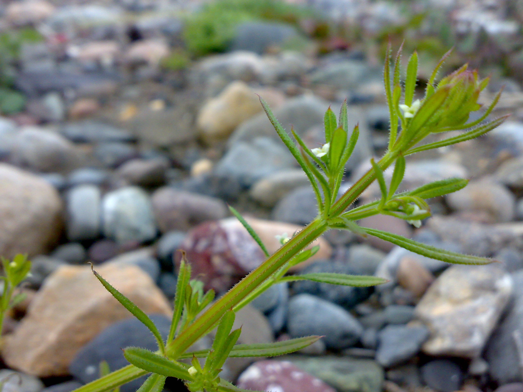 Galium uliginosum in Jelöy, Moss, Norway